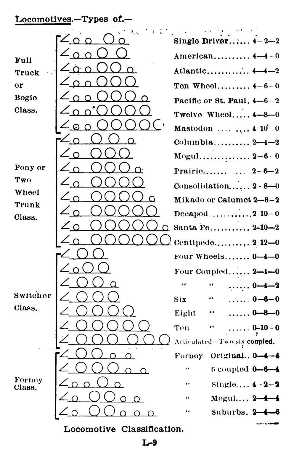 American and Commonwealth system of locomotive classification (Whyte notation), as of 1906. From a handbook for railroad industry workers published in 1906. (The typo "Trunk" should read "Truck".)